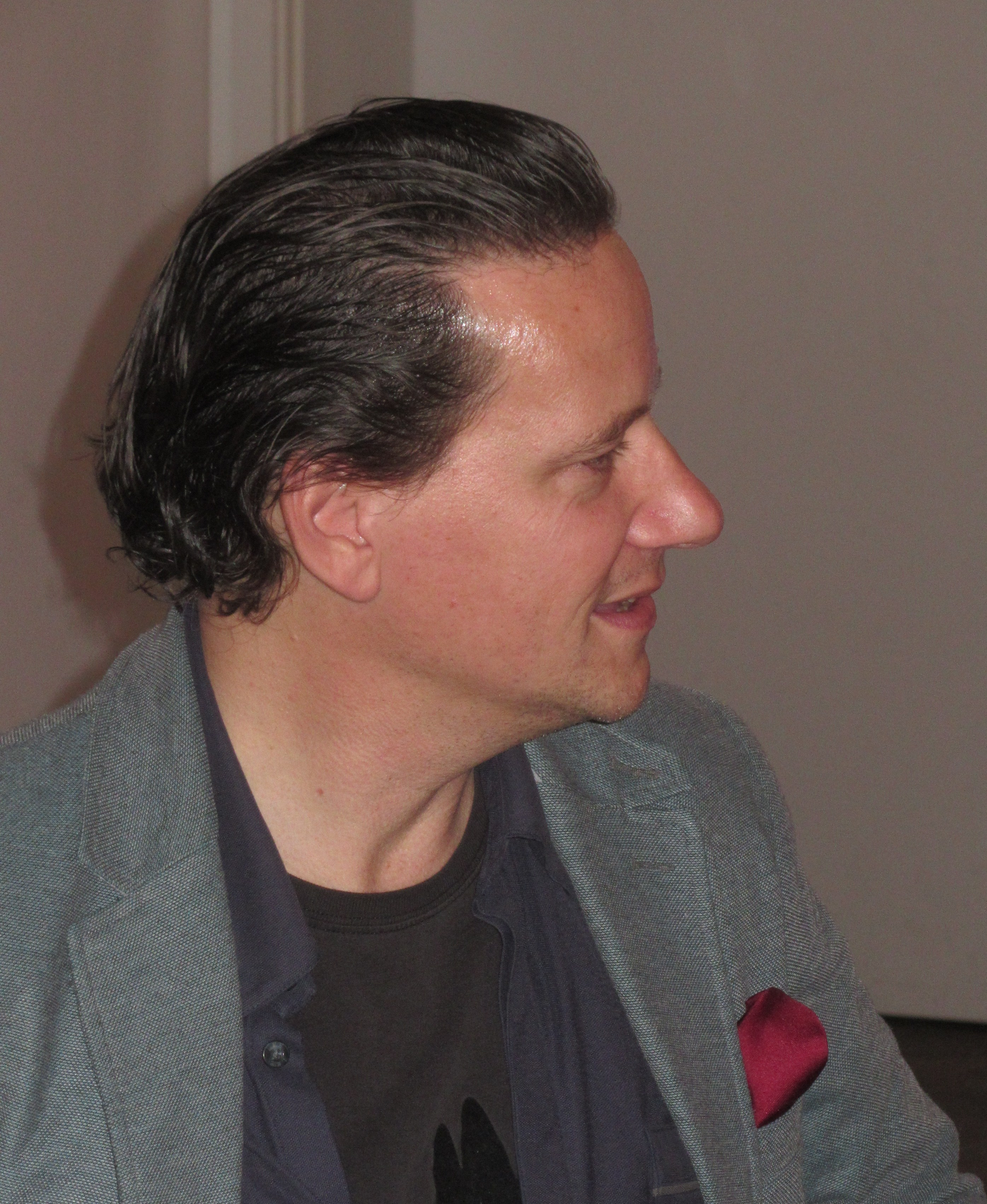 Oliver Augst, German author, musician, composer, producer